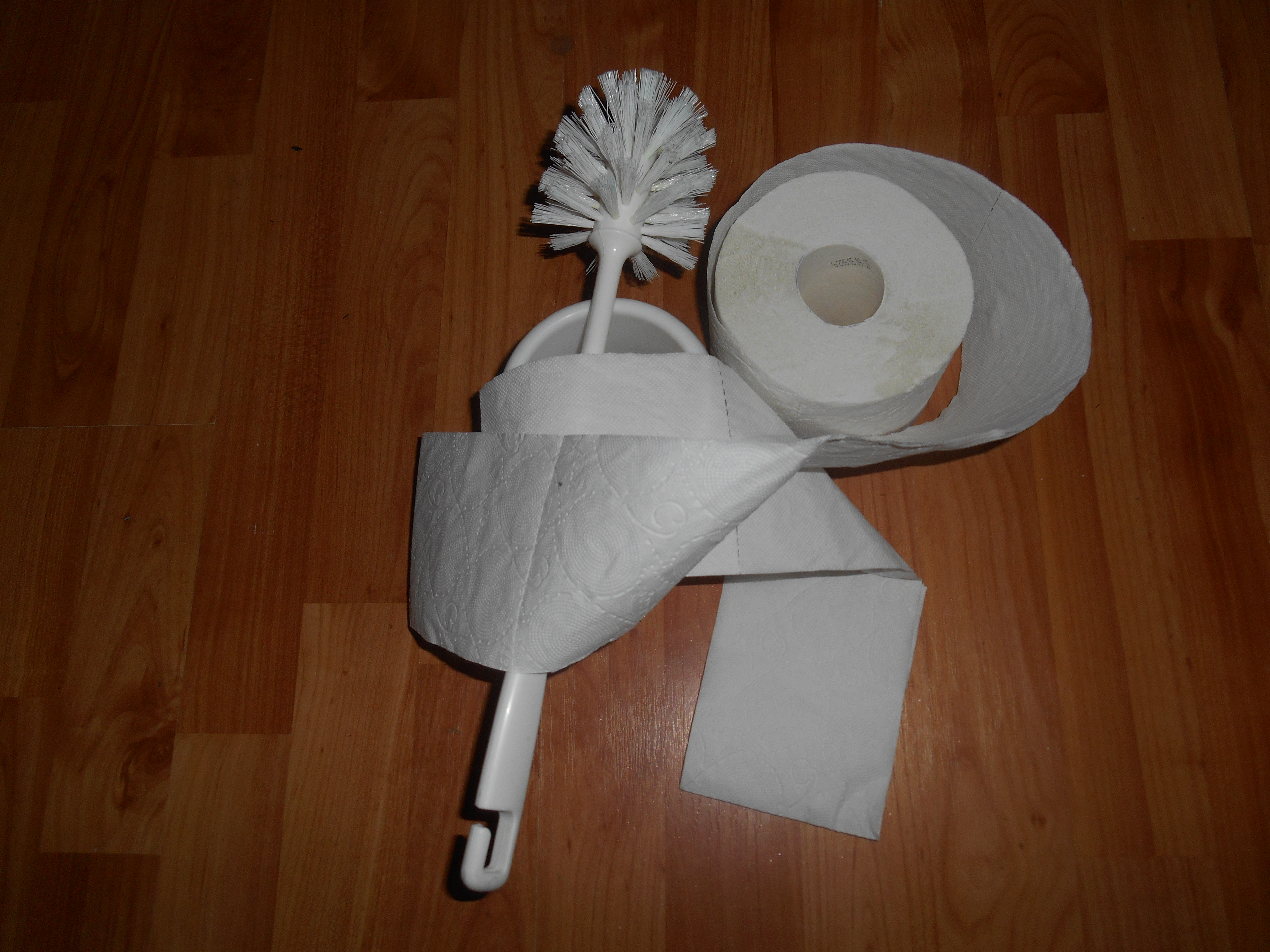 A picture of my toilet brush, for use on wp:Brush (No shit!)